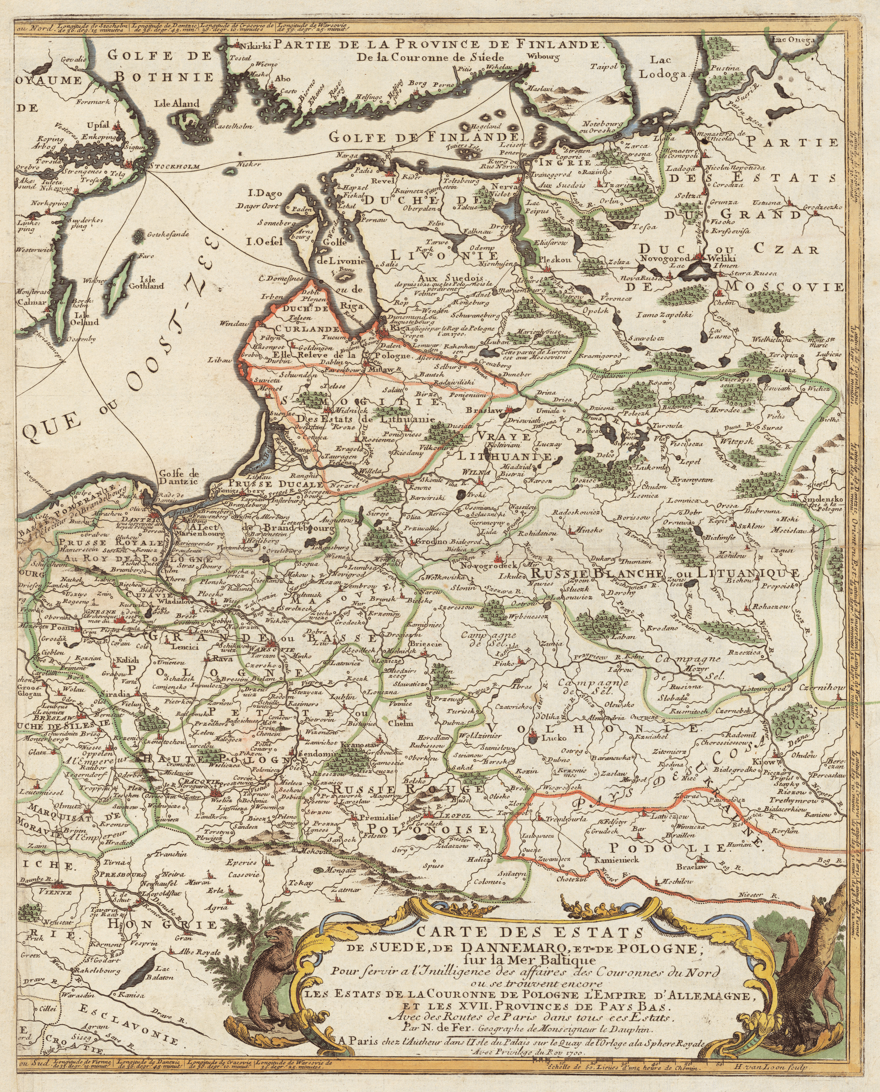 Published in Paris by Nicolas de Fer in 1700. Copper engraving, ca 1:4 200 000, 35 x 43 cm. The original map consists of two parts; the present is an Eastern part.